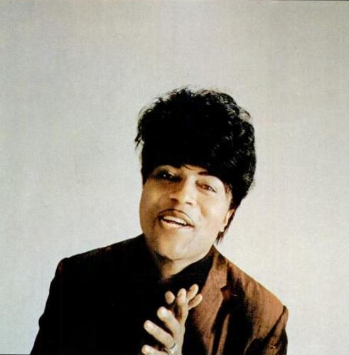 Trade ad for Little Richard's single "It's A Poor Dog That Won't Wag His Own Tail".To better adapt it to his respective Wikipedia article, the ad was cropped and cleaned in a graphics editing program. The original can be viewed at the source below.